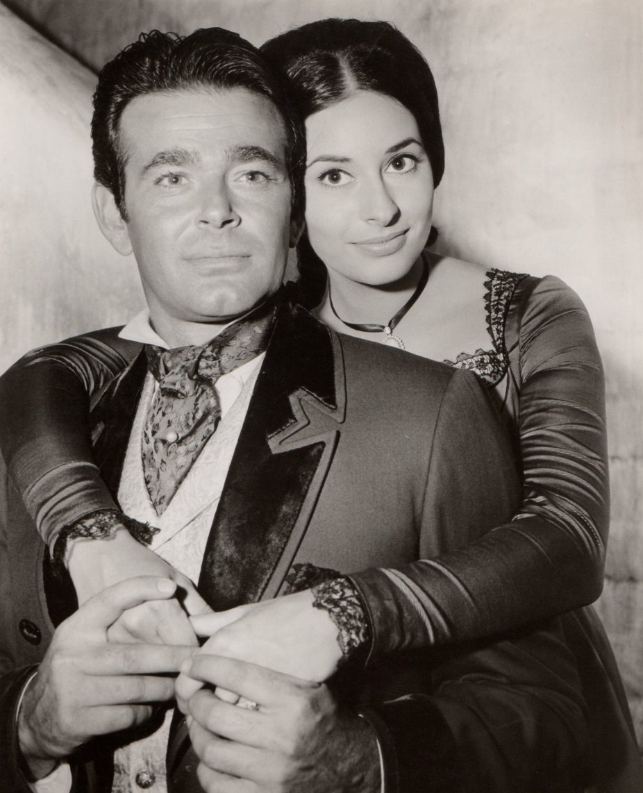 Stuart Whitman and Ina Balin in The Comancheros (1961) - publicity still (cropped and without marks)